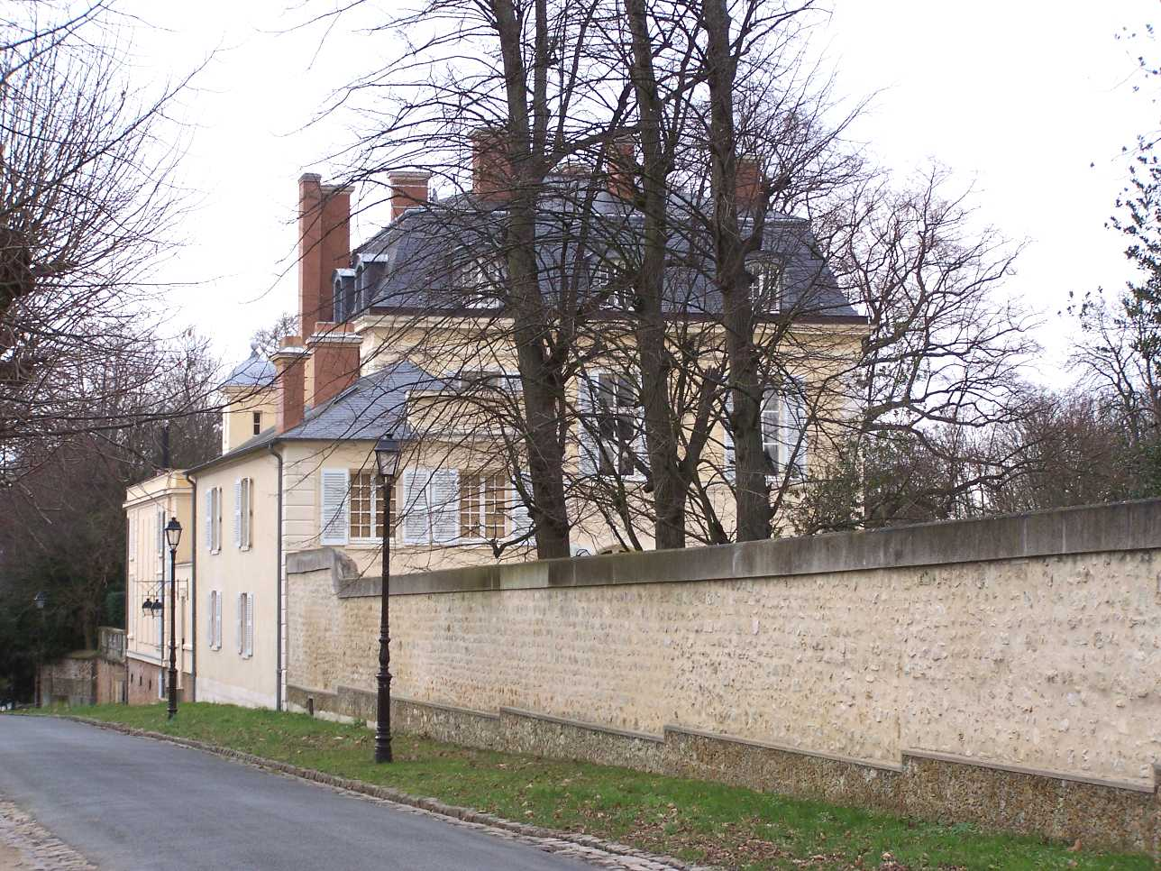 Pavilion of the waters in the path of the Machine in the village of Voisins in Louveciennes (Yvelines, France)